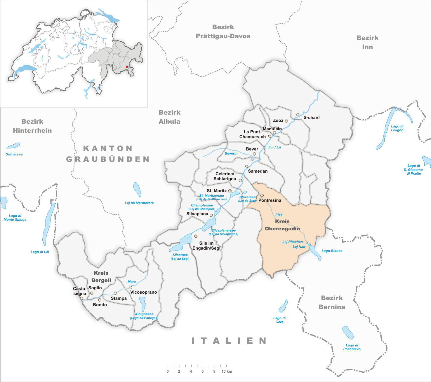 Municipality Pontresina